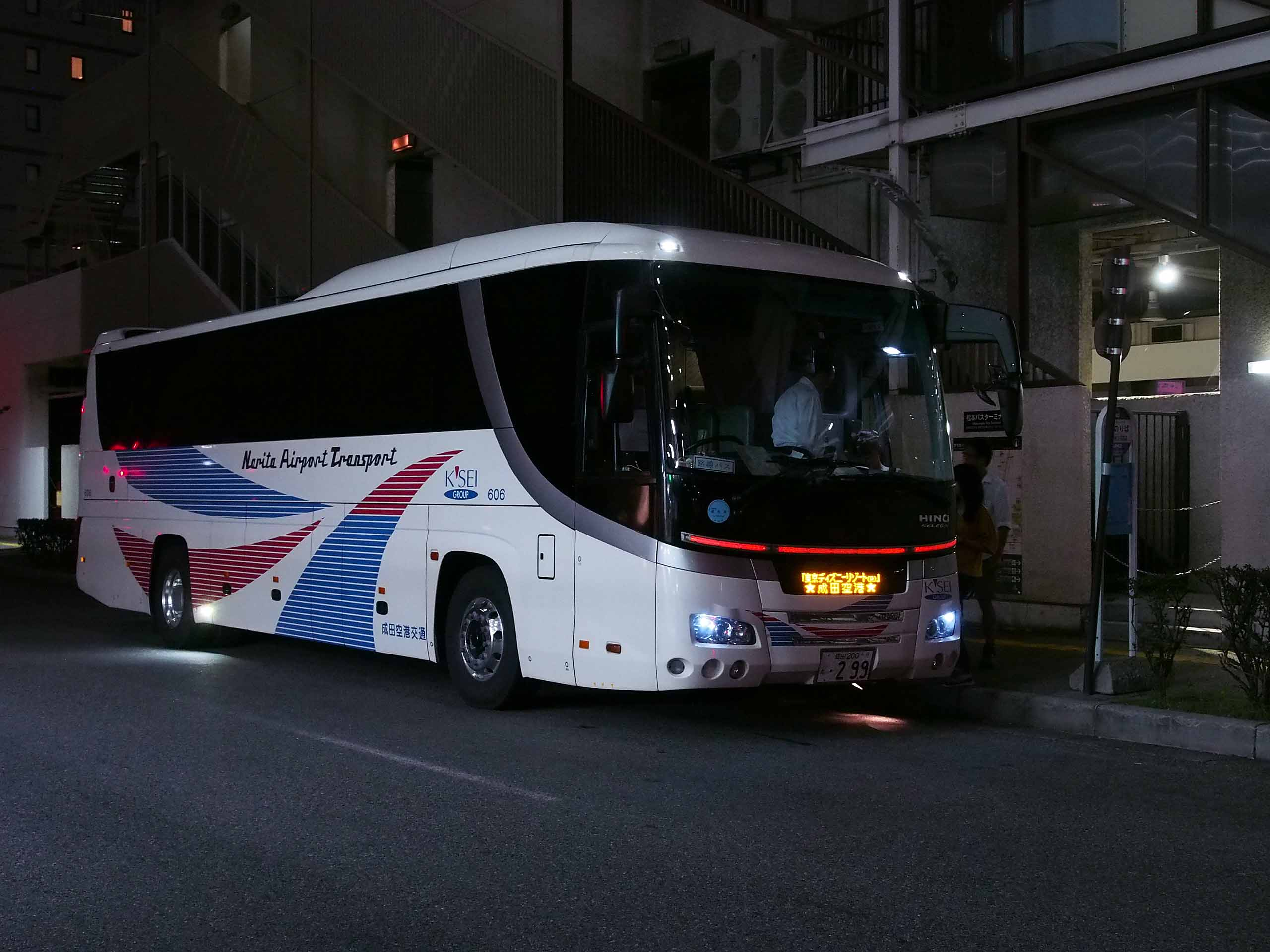 Narita Airport Transport Nagano and Chiba Line, stopping at Matsumoto Bus Terminal. Model: Hino Selega HD RU1ESAA License plate: CBR200KA0299